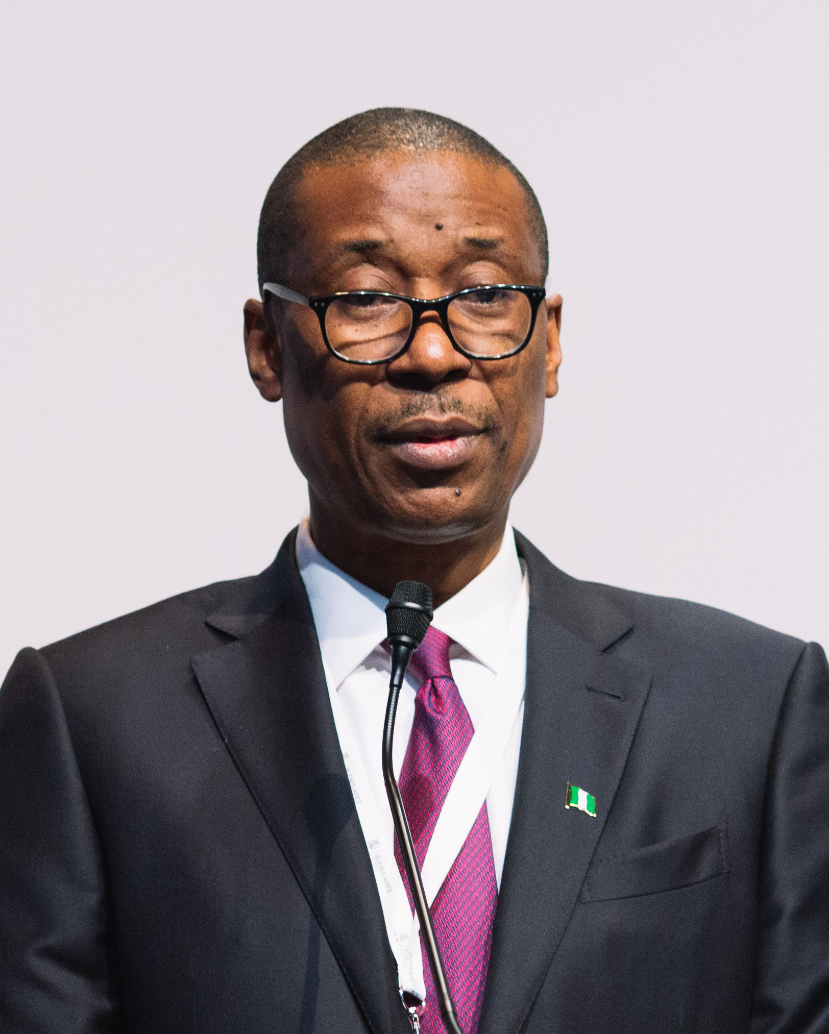 Photos from the opening plenary session photo gallery may be reproduced provided attribution is given to the WTO and the WTO is informed. Photos: © WTO/ Cuika Foto